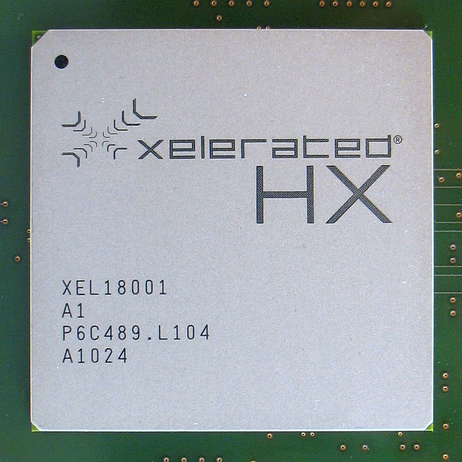 100 Gbit/s network processor Xelerated HX